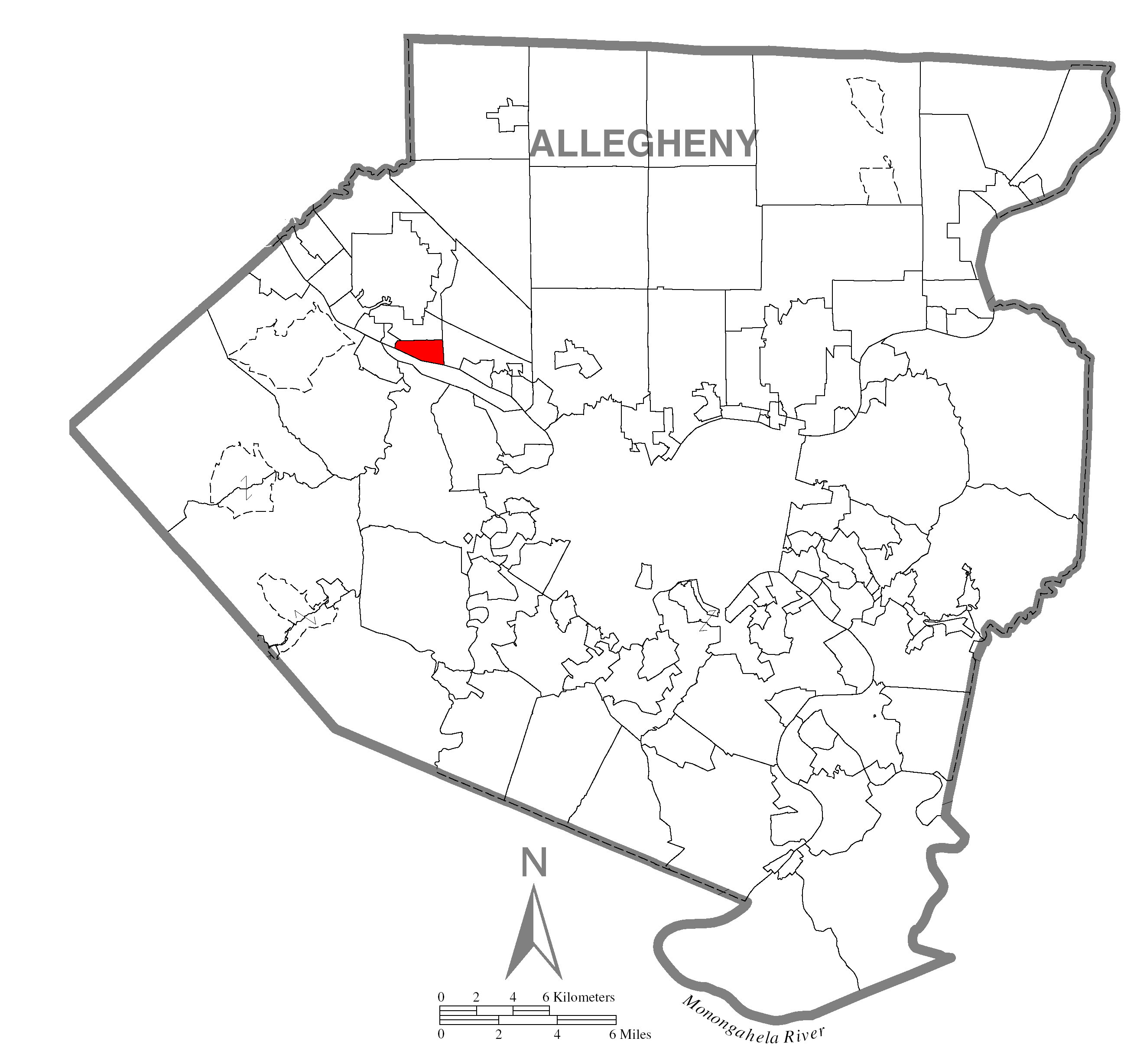 A map of Allegheny County showing Glenfield, Pennsylvania (alternate) highlighted on the map.